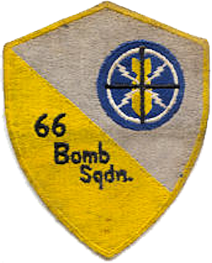 Emblem of the 66th Bombardment Squadron (SAC)